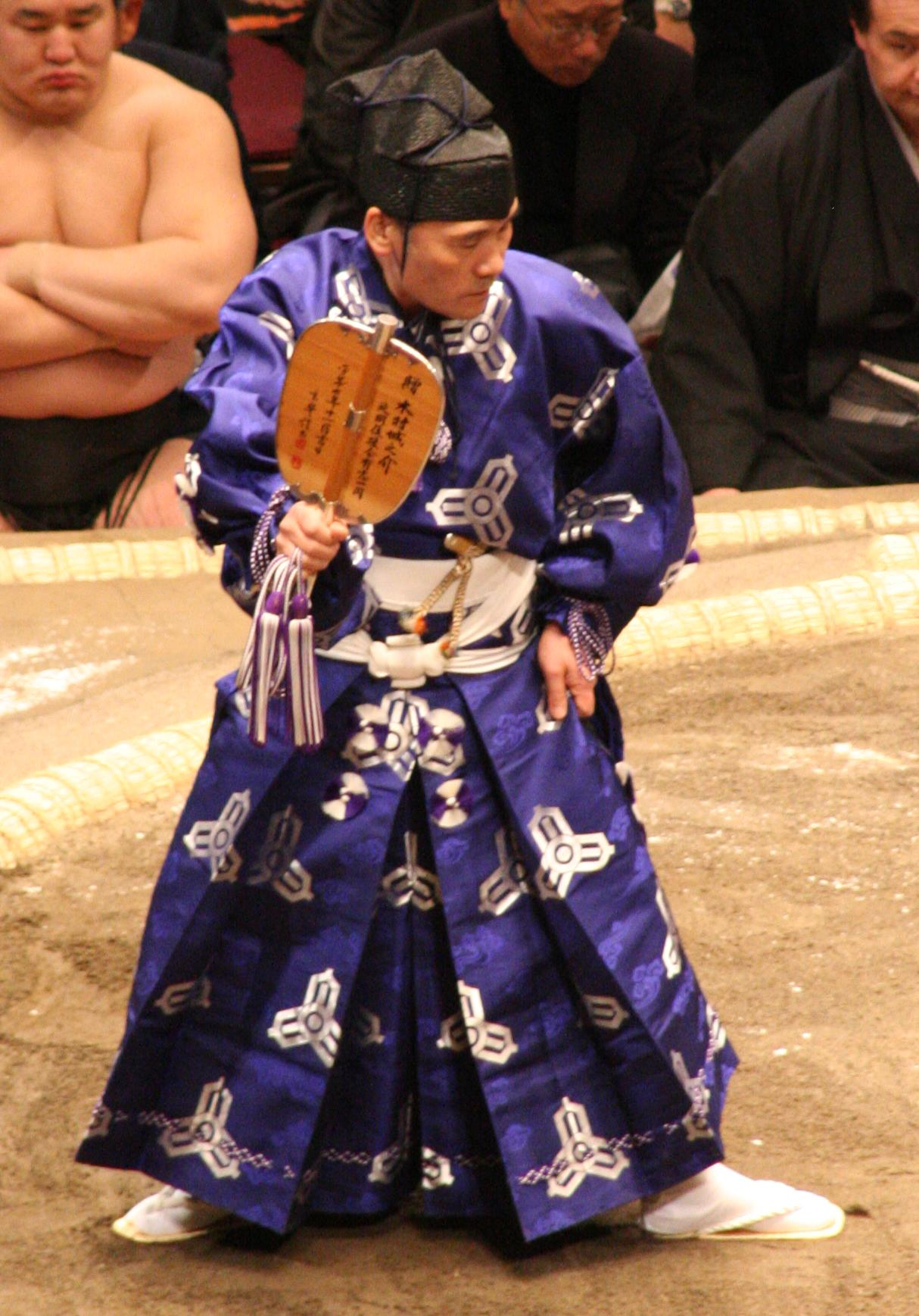 A sumo referee, the 37th Shikimori Inosuke, holding his gunbai or war fan towards the photographer before the start of a bout during the January Tournament in Tokyo 2008